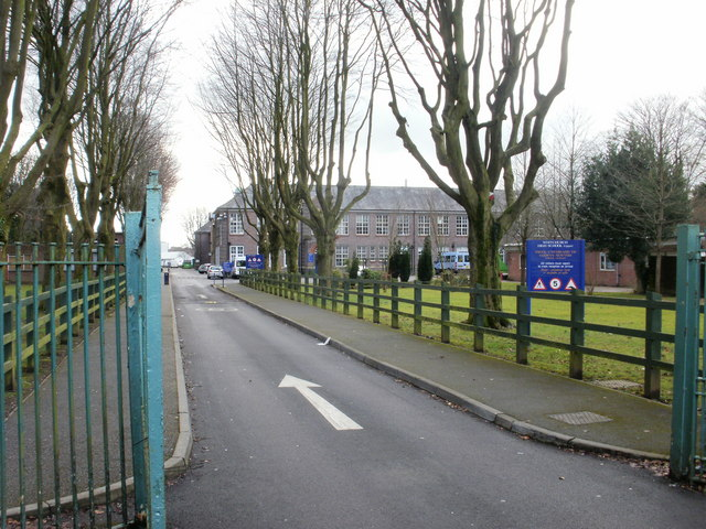 Tree-lined entrance to Whitchurch High School, Cardiff The Penlline Road entrance.